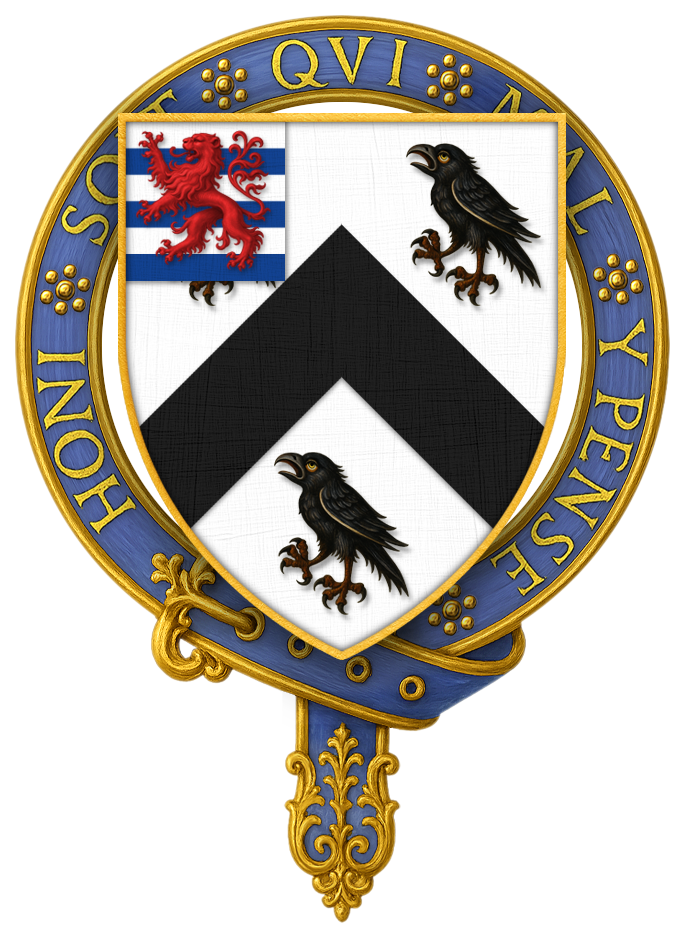 Garter-encircled arms of Sir Cennydd Traherne, KG, as displayed on his Order of the Garter stall plate, viz. Argent a chevron sable between three ravens proper, on a canton barry of six of the first and azure a lion rampant gules.